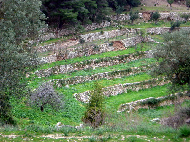 Terraces on Mallorca in an imperfect state of repair, crumbling in some areas.